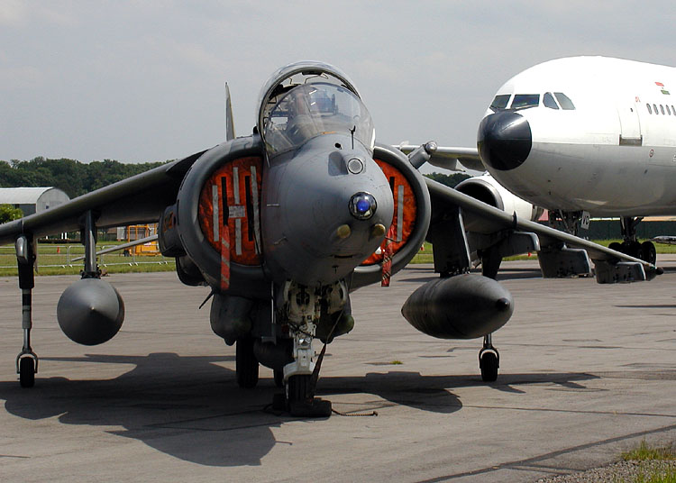 Harrier GR7, to show anhedral. Photographed by Adrian Pingstone in June 2003 at Kemble Airfield, Gloucestershire, England, and released to the public domain.